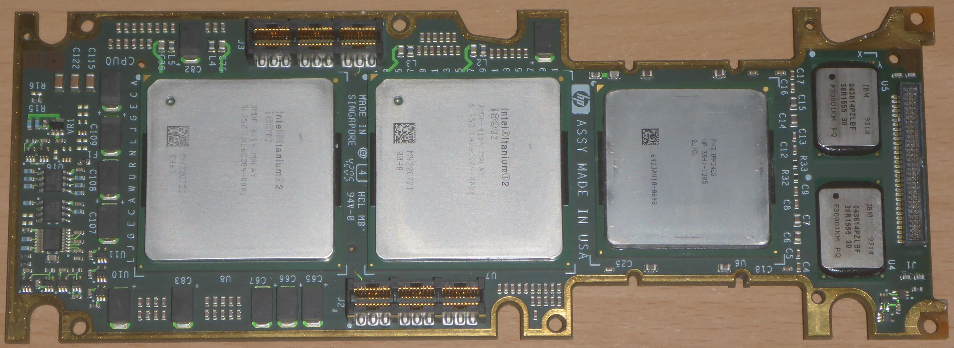 Top of an Itanium 2 mx2 module, manufactured by HP and Intel.